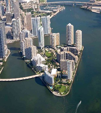 Since 1970s, Swire Properties has developed a number of commercial and residential properties on Brickell Key in downtown Miami.